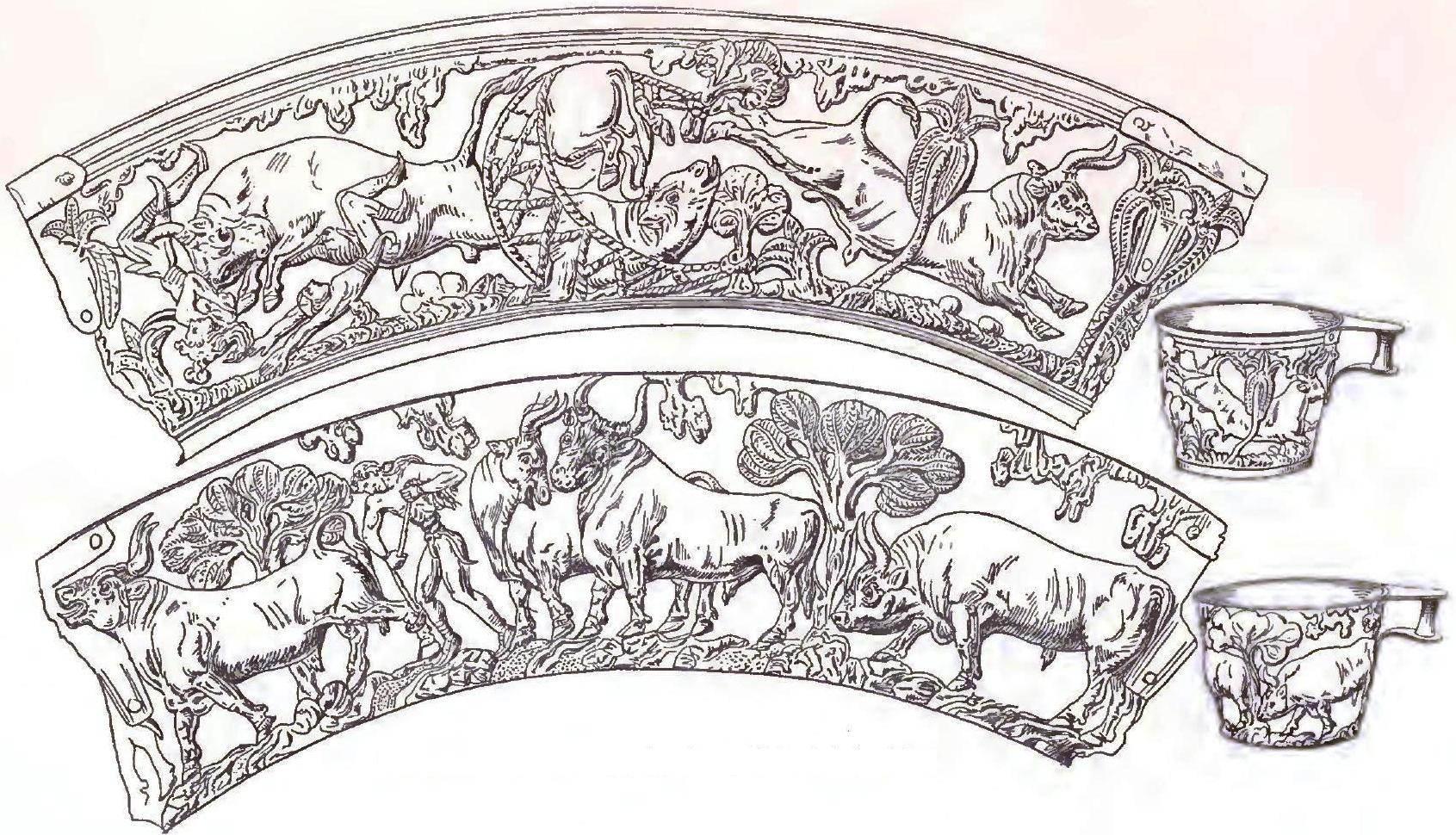 Mycenaen golden cup from Vafeio, Laconia. Approximately first half of 15th century B.C.